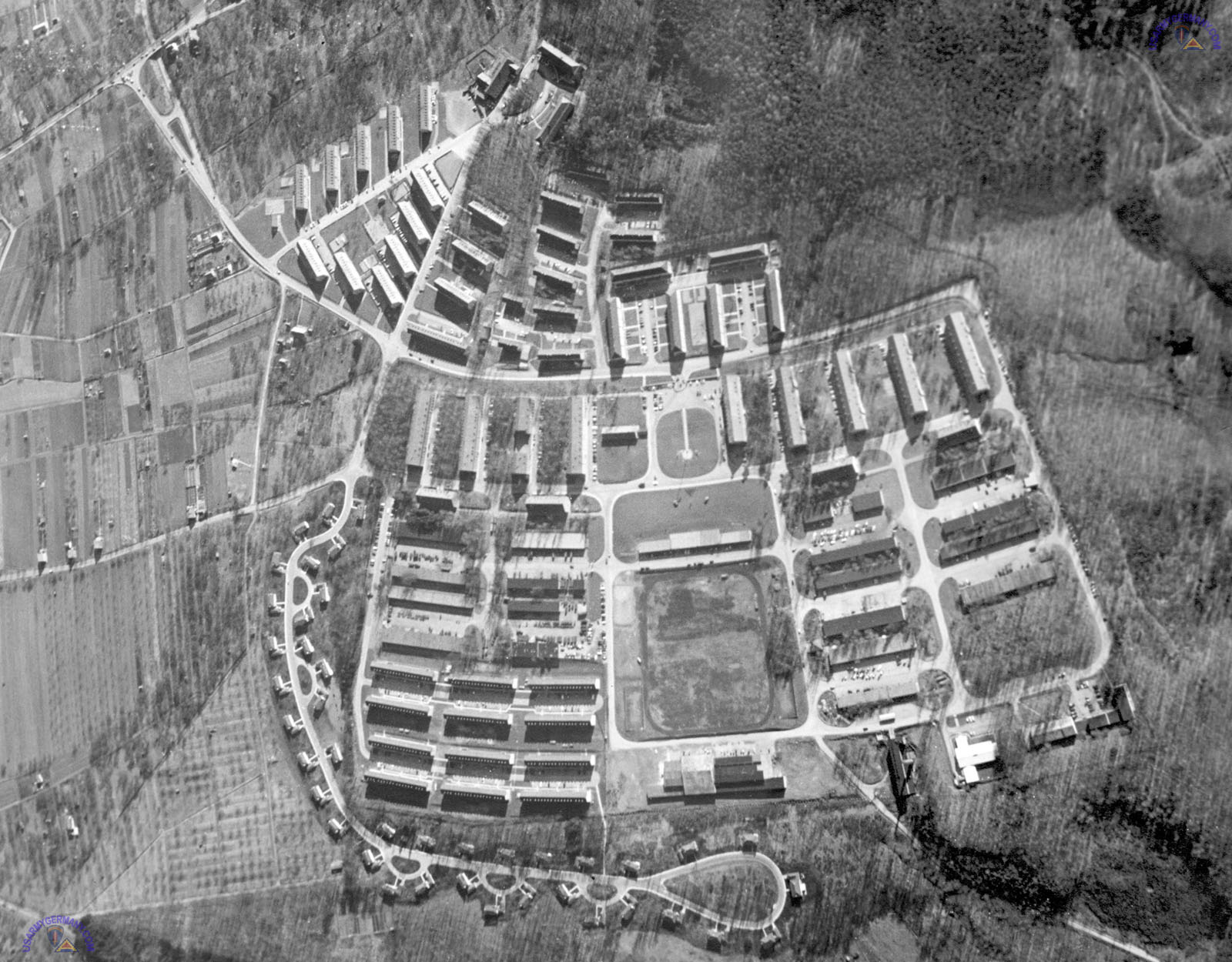 Headquarters, Seventh US Army. Photo was taken in Jan 1957 by SP/3 Jihlavec, from an L-19 piloted by Lt. McGee at 8000 ft. altitude. Both men were with the 97th Signal Battalion.